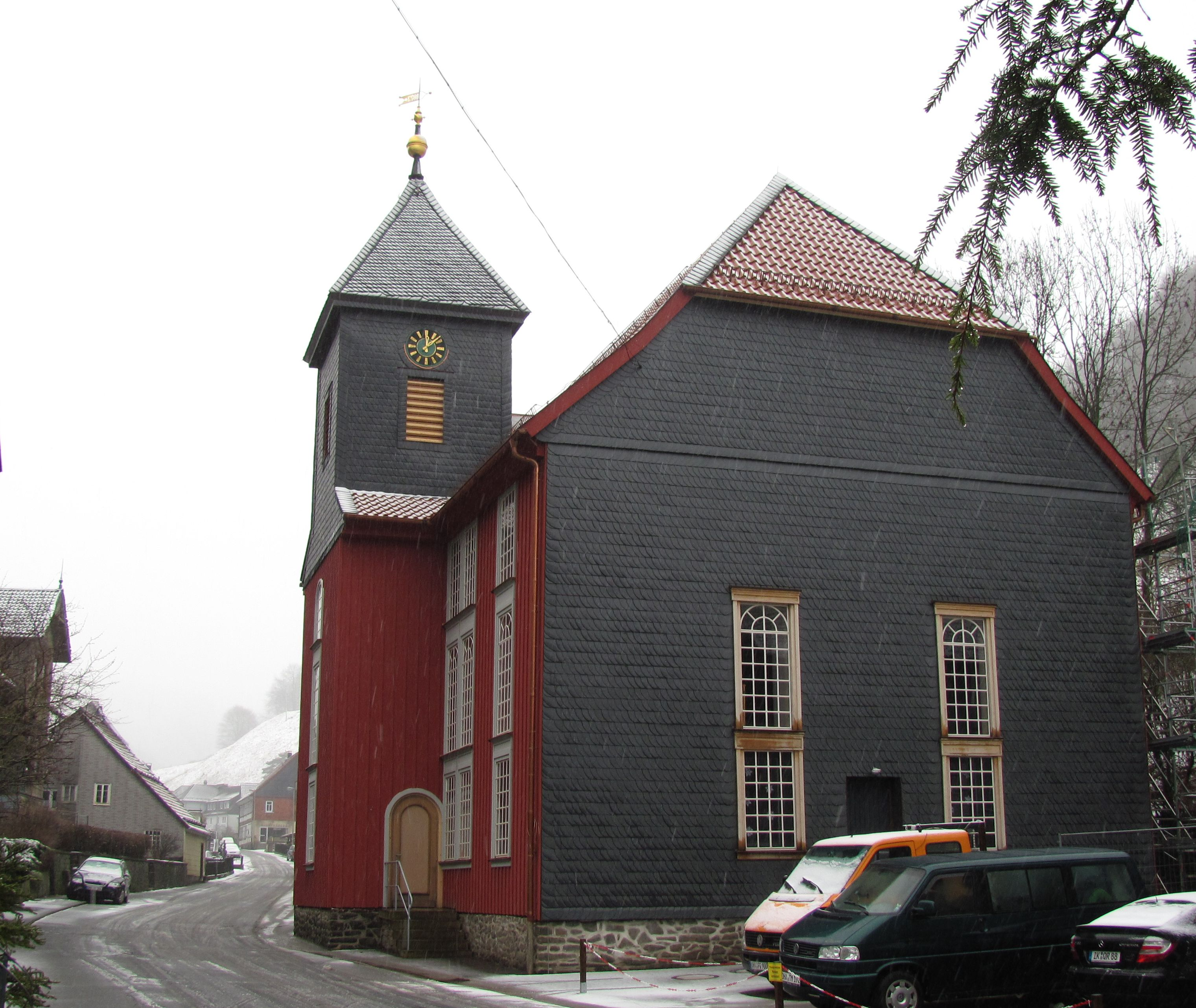 Protestant Church, Lerbach, Harz mountains, Lower Saxony, Germany